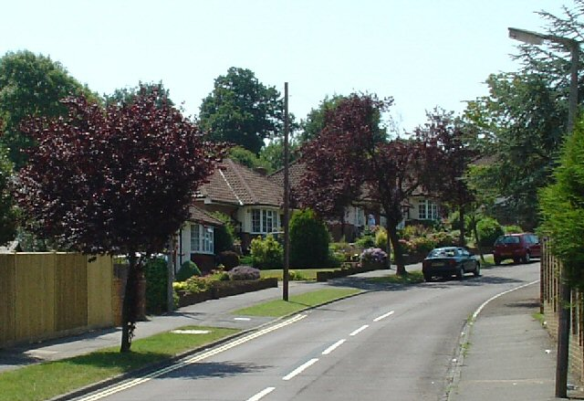 Noel Rise, a street in Burgess Hill